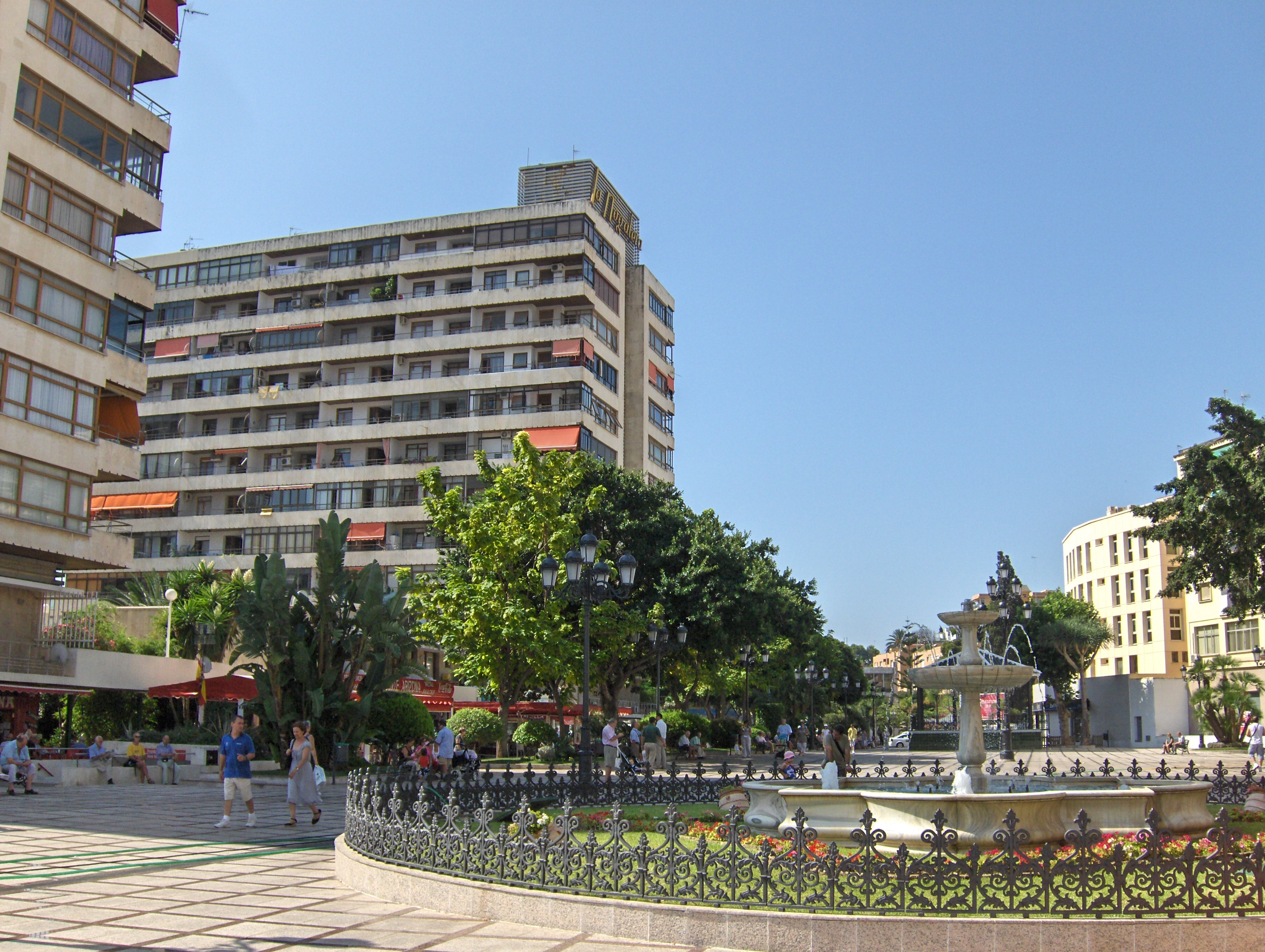 La Nogalera, Torremolinos.